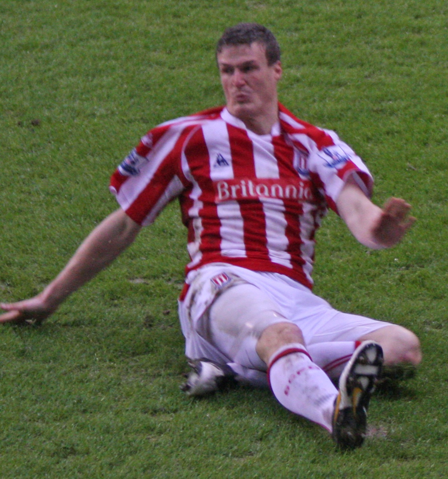 Stoke City FC V Arsenal 42